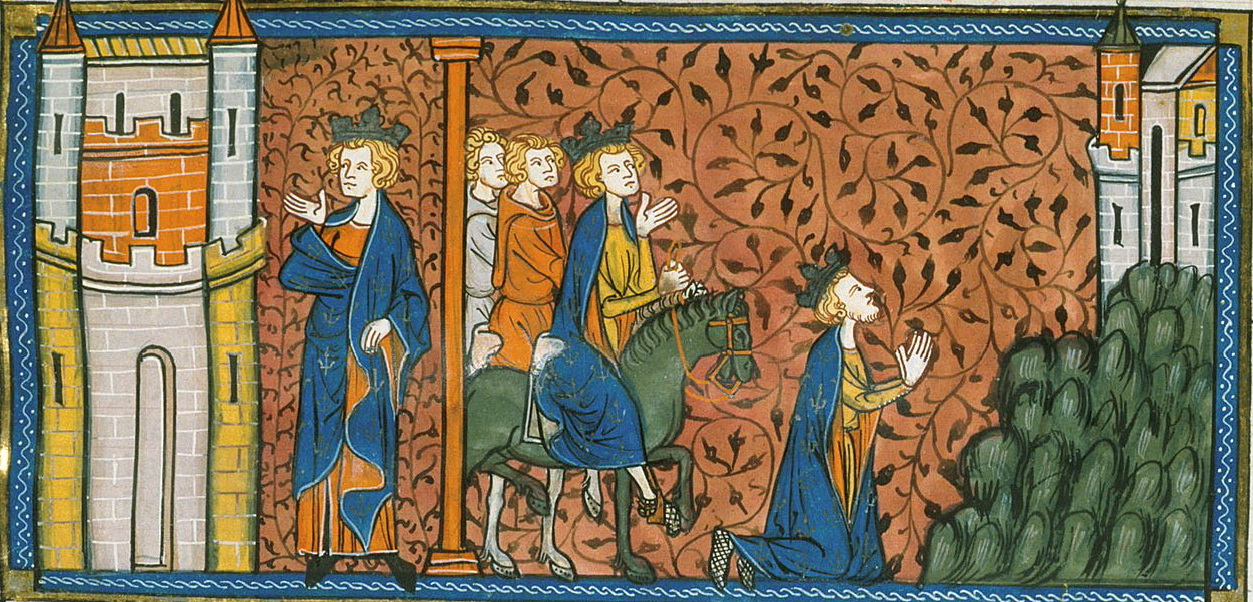 Seventh Crusade: Louis IX of France building a fortress (left), and going on a pilgrimage to Nazareth (right). (British Library, Royal 16 G VI f. 415v)